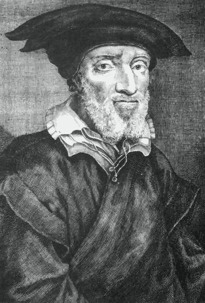 Matthias Flacius (1520-1575), Reformation-era theologian.